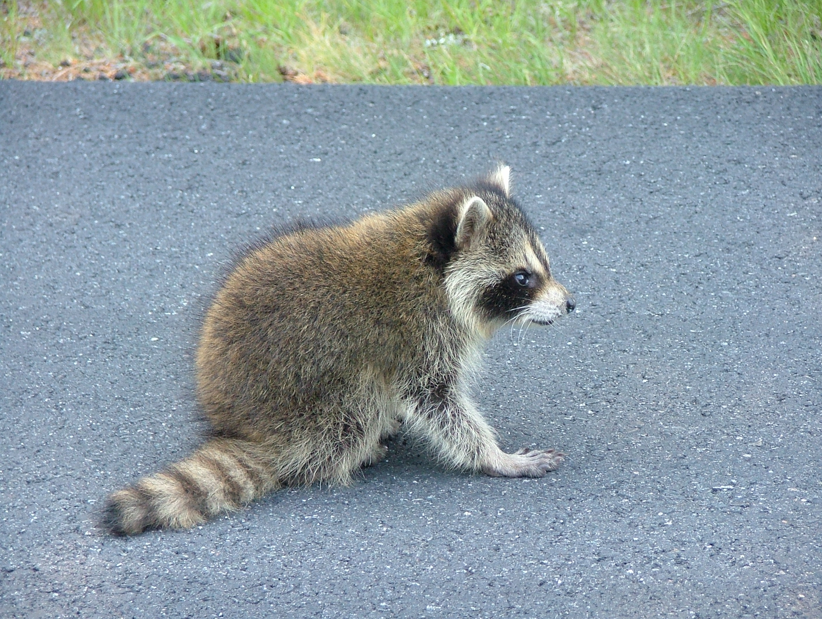 Raccon on the road near Seal Harbor, Acadia National Park, Maine.